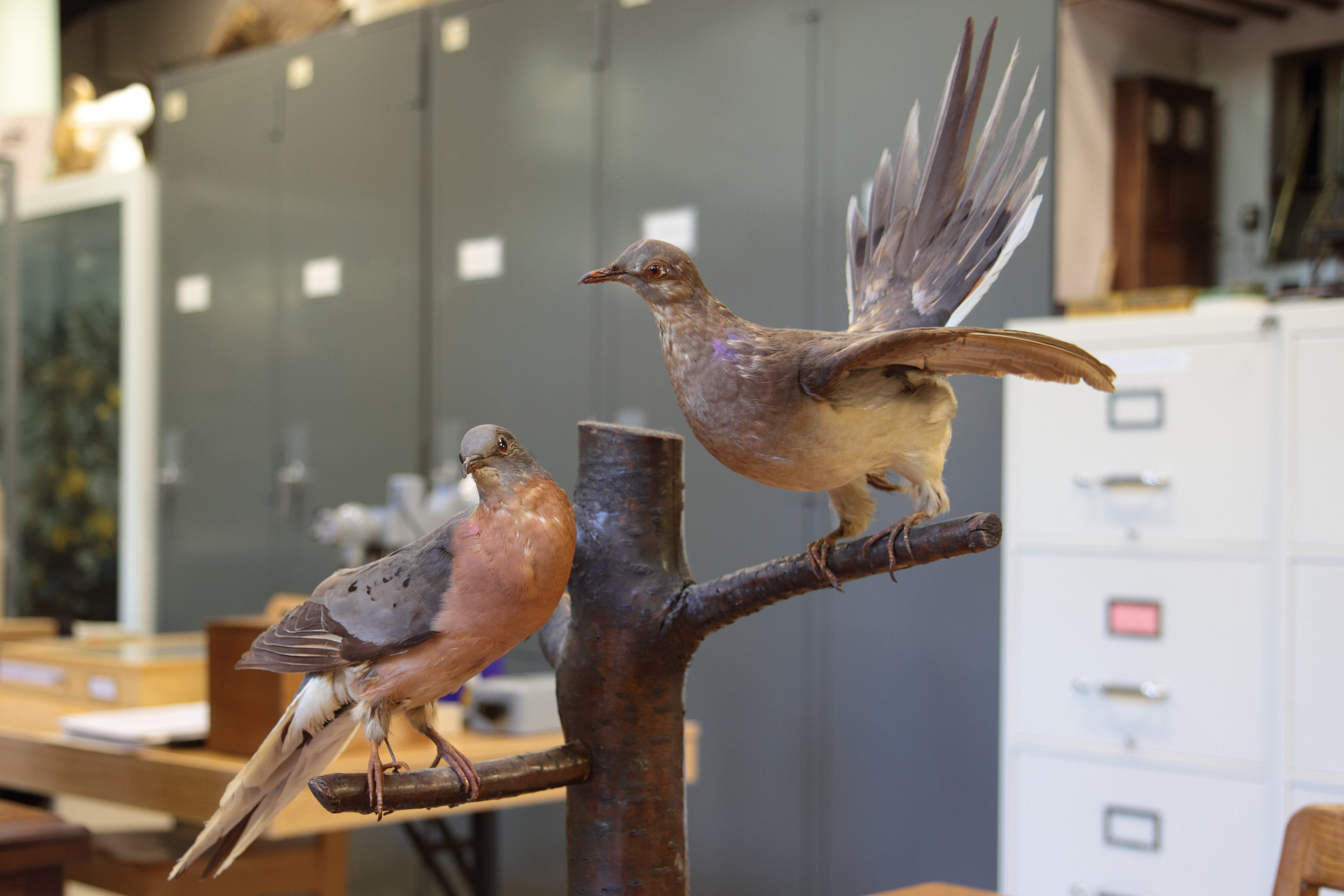 Passenger Pigeon, taxidermied adults male and female. Teaching and research collections, Laval University Library.